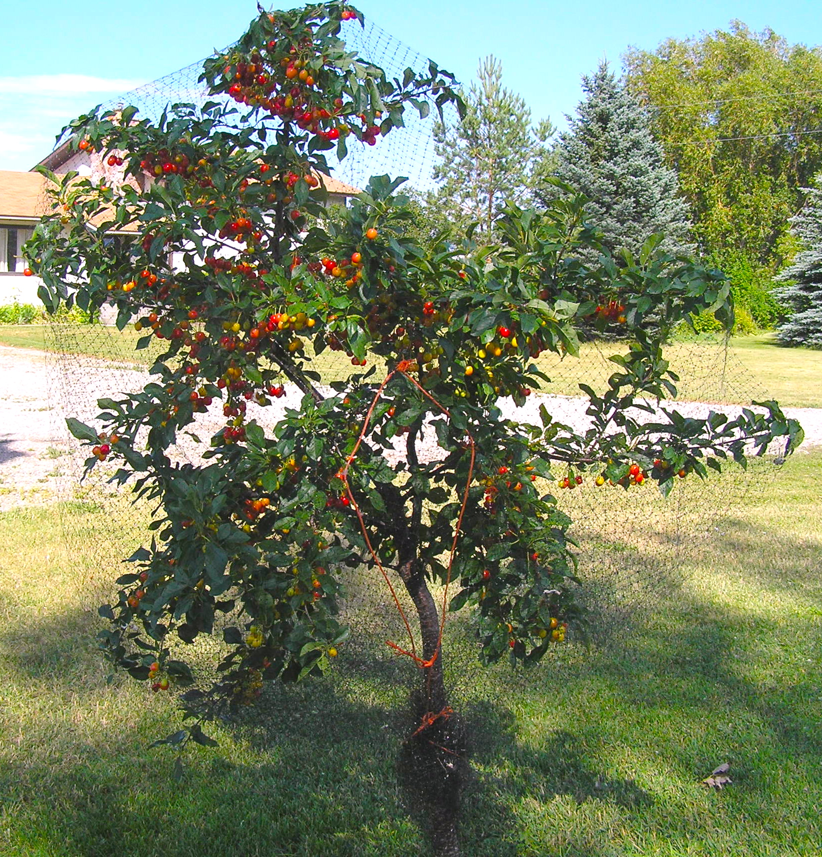 A young Evans Cherry tree growing in Montana, with ripening cherries. Netting is placed over the tree to keep birds from eating the fruit.